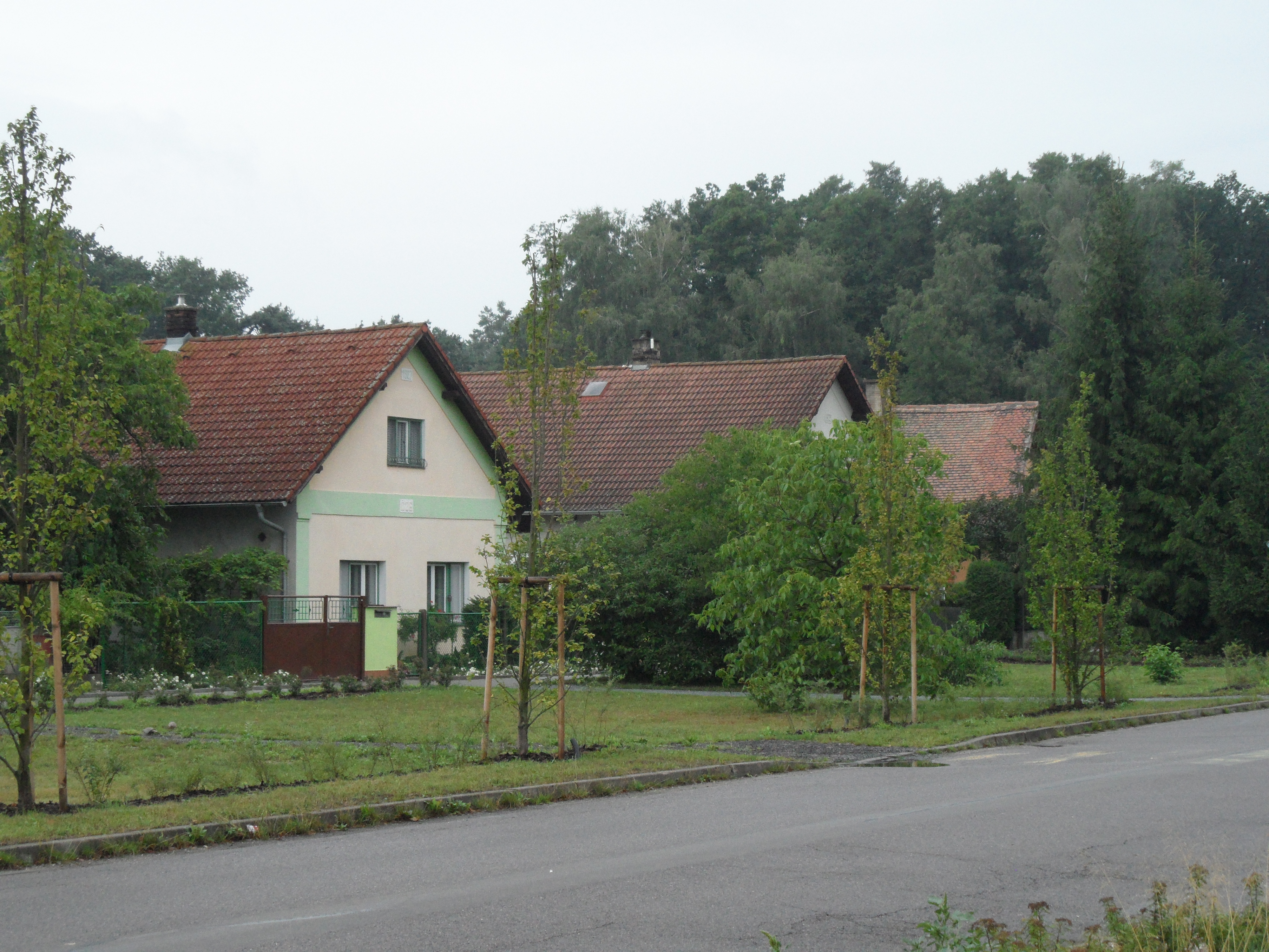 Doubravice (Pardubice) A. Houses along Main Road. Pardubice District, the Czech Republic.